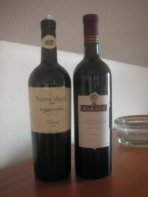 Wines of Georgia - Teliani, Marani Egen bild.